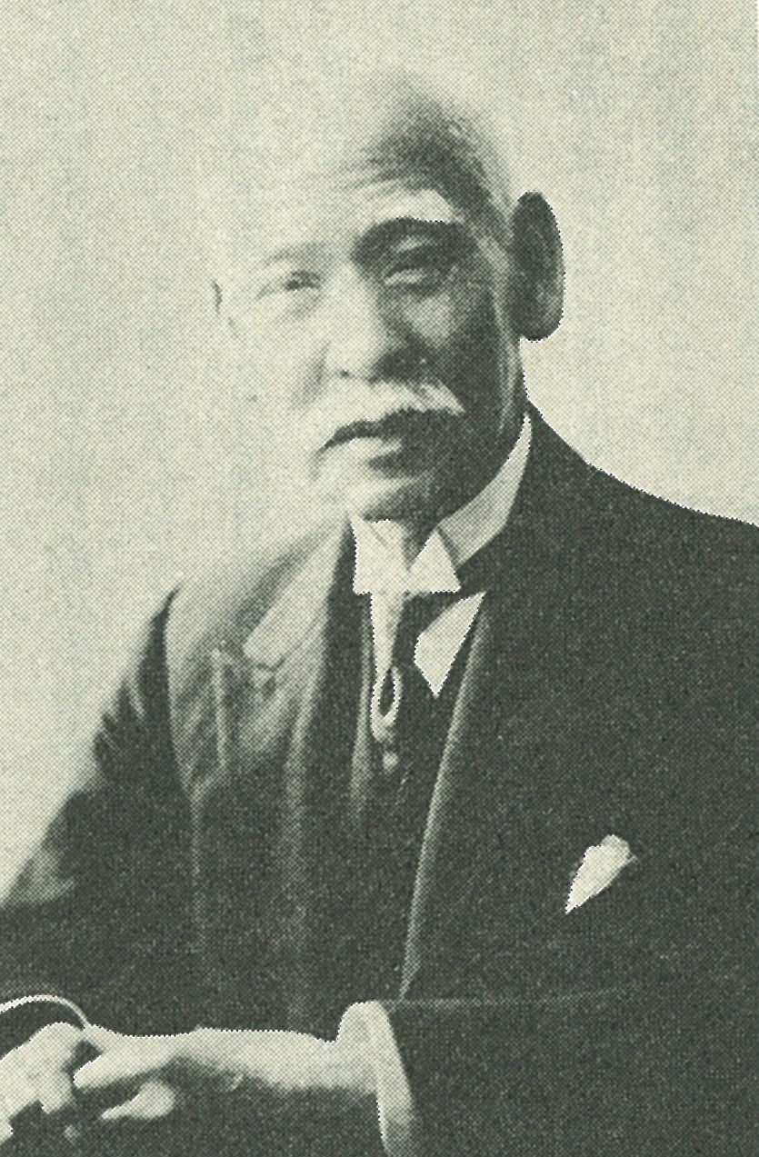 Dr. Toichiro Nakahama